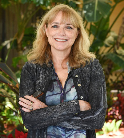 Karen Allen at the opening of A Year by the Sea, Coconut Creek, FL